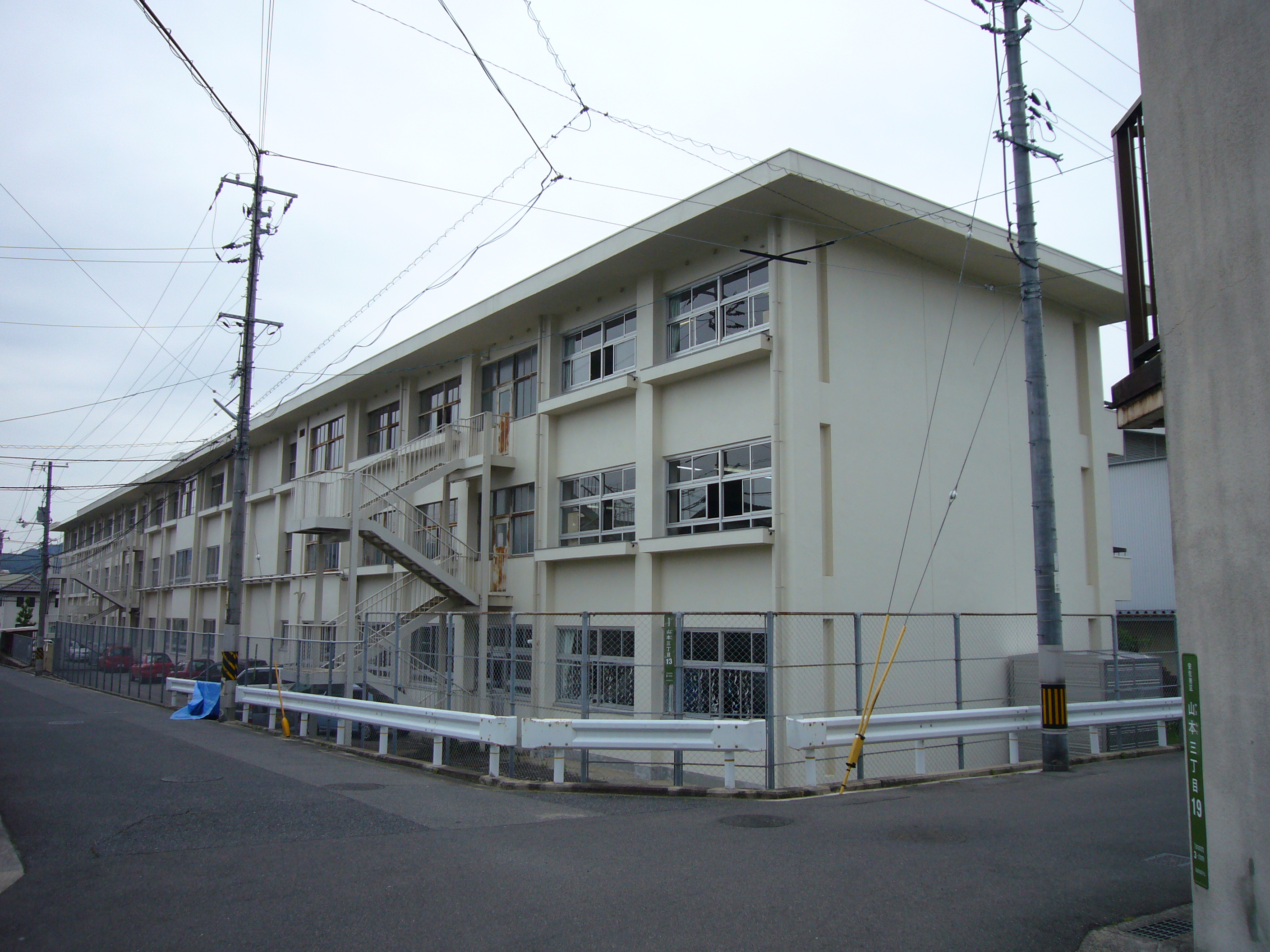 The north side picture of Hiroshima city Yamamoto elementary school